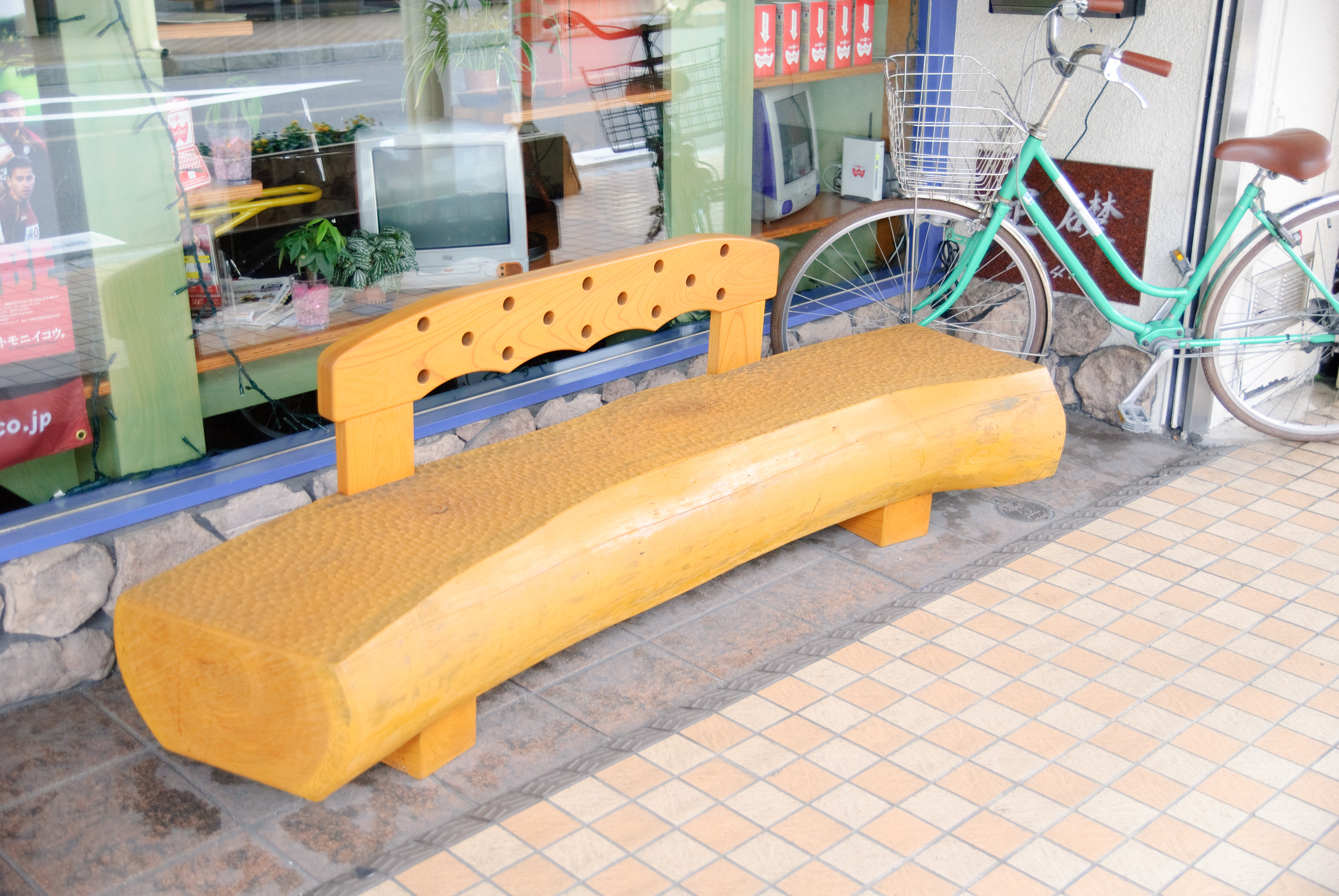 Bench set up on Caban street